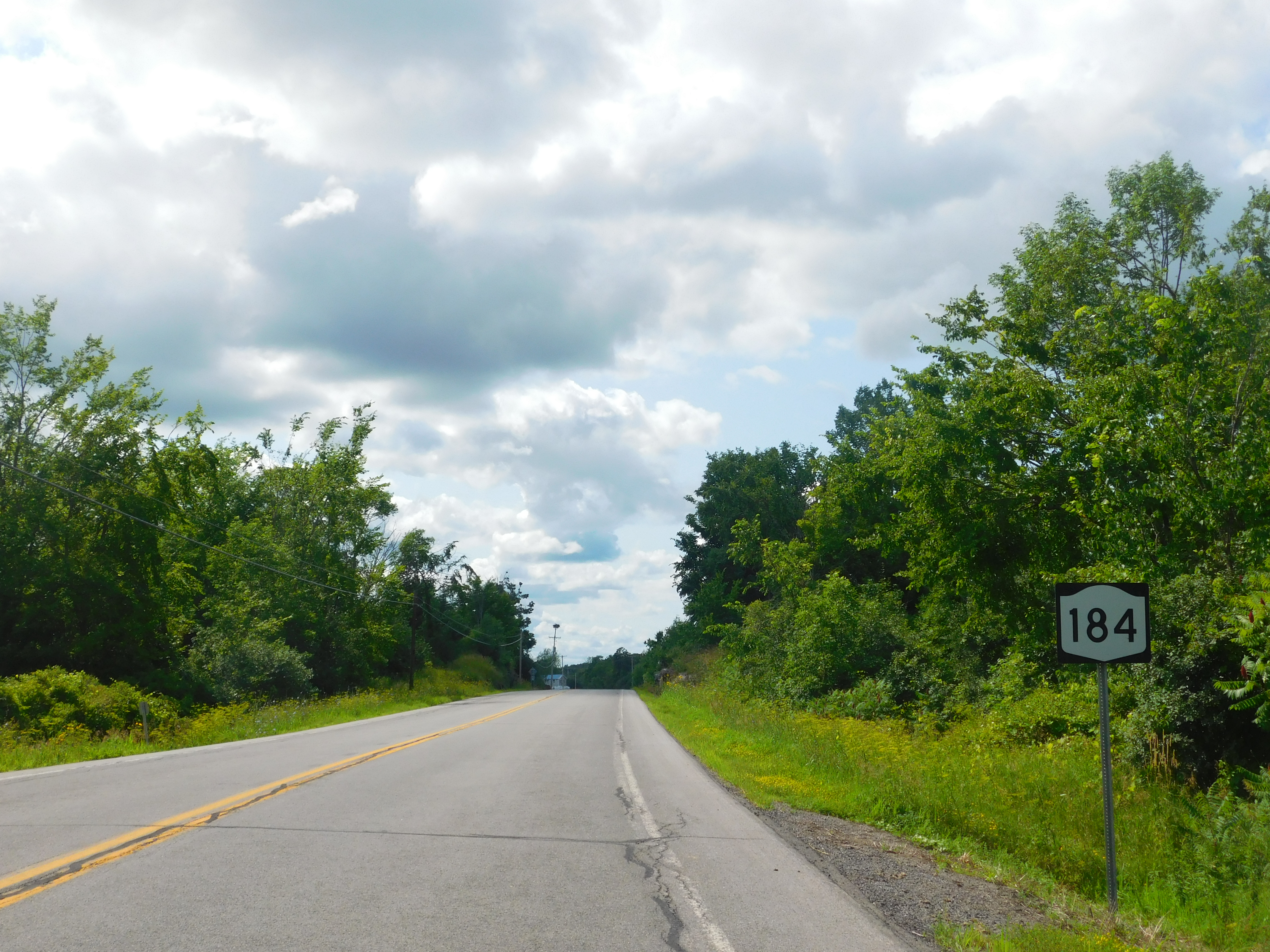 New York State Route 184 southbound in DePeyster, New York.